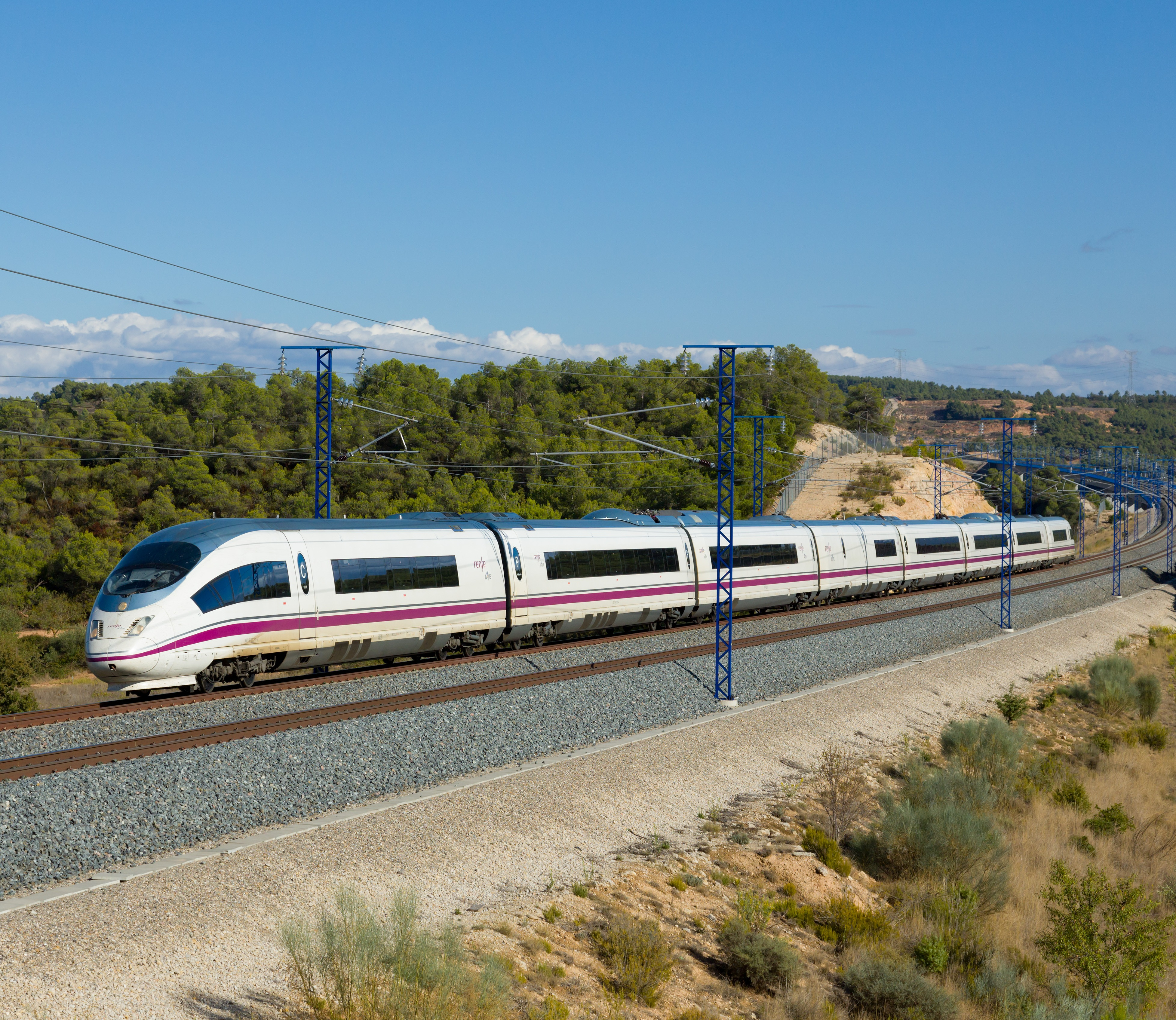 RENFE's AVE 394 Barcelona - Sevilla passes us at about 300 km/h on the LAV (Línea de alta velocidad) Barcelona - Madrid. Picture taken near Vinaixa, Spain.